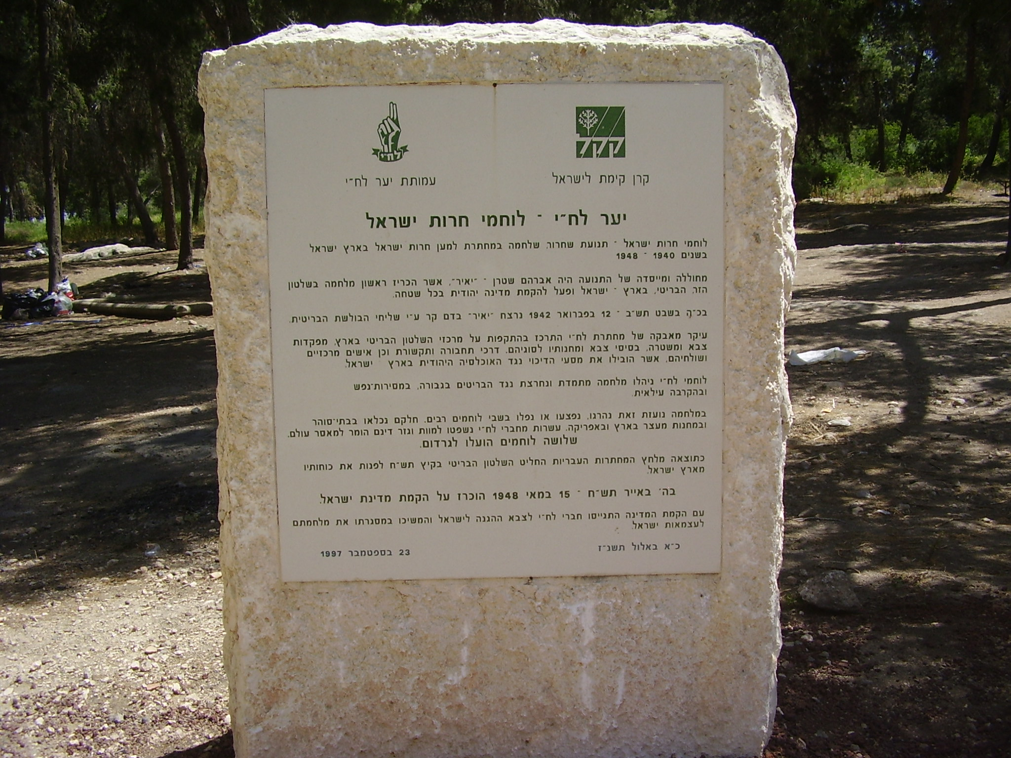 Lehi (Israel Freedom Fighters) memorial, Israel